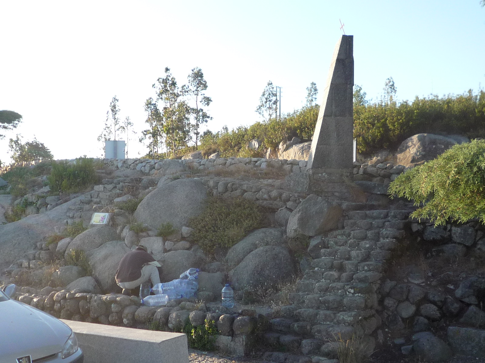 Similar freeloaders in Buxton, England The Fonte da Senhora (Our Lady's Well) at 37°18′27″N 8°36′19″W / 37.307478°N 8.605213°W on the southern slope of Fóia, Algarve. It is at an altitude of 773 metres (2,536 ft), only 130 m below the summit but there is clearly sufficient water. The monument surmounted by a cross bears an image of Mary. Two people (the other is loading the car) are filling dozens of five litre bottles, probably for re-sale. Lifecooler page. (A nearby settlement is called Água D'Alta (high level water).)